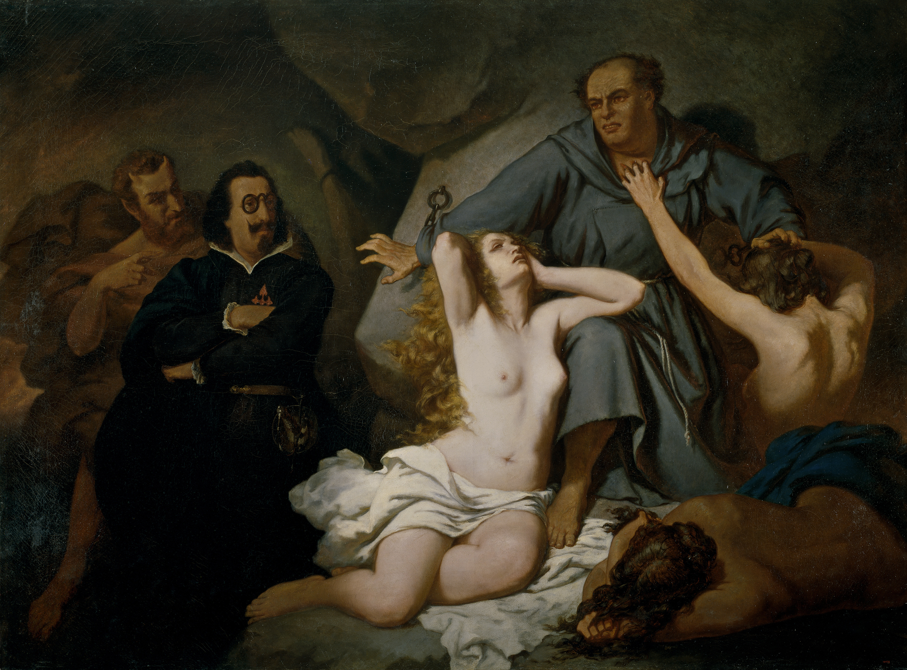 Two naked women appear at the feet of the Protestant reformer Martin Luther. The painting is inspired by a passage by poet Francisco de Quevedo.